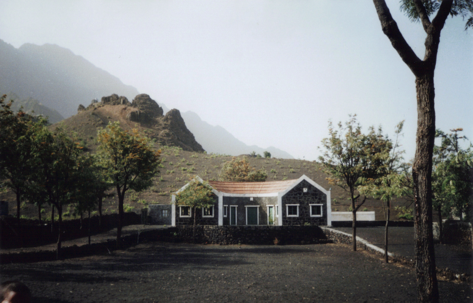 Church in Portela, island of Fogo, Cabo Verde